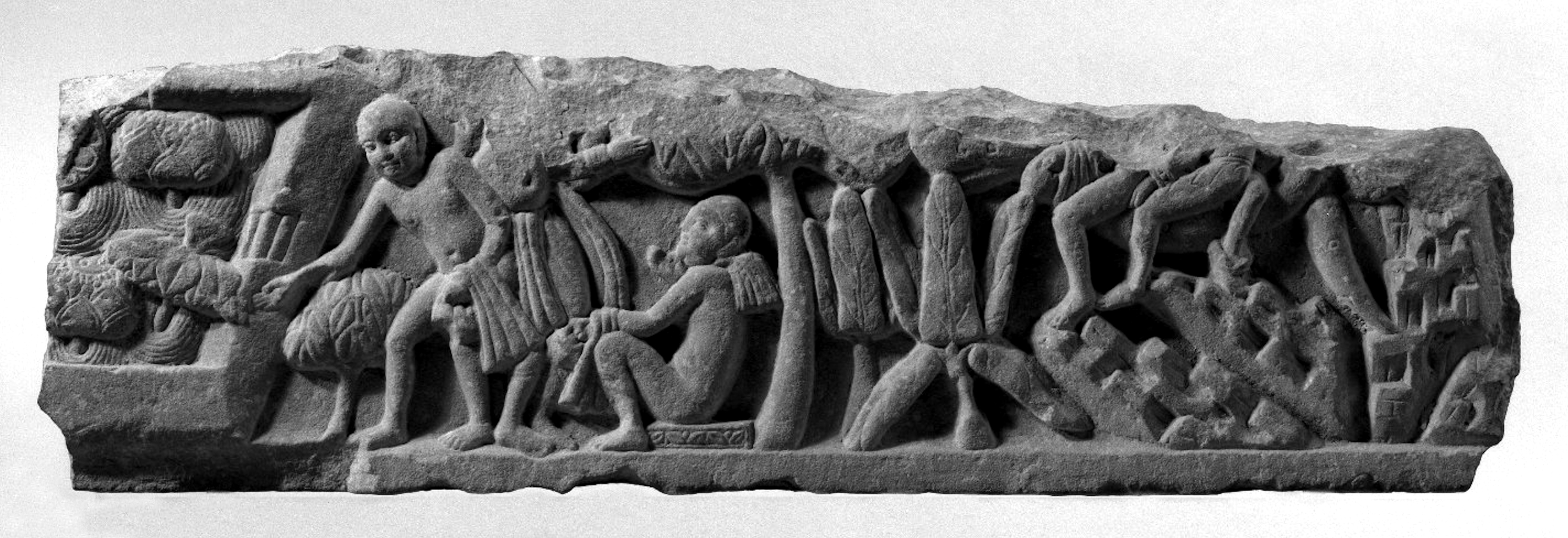 Jain Narrative Relief Panel, mid 2nd century BCE.-1st century CE (18.4 x 61.6 cm) Brooklyn Museum 87.188.5